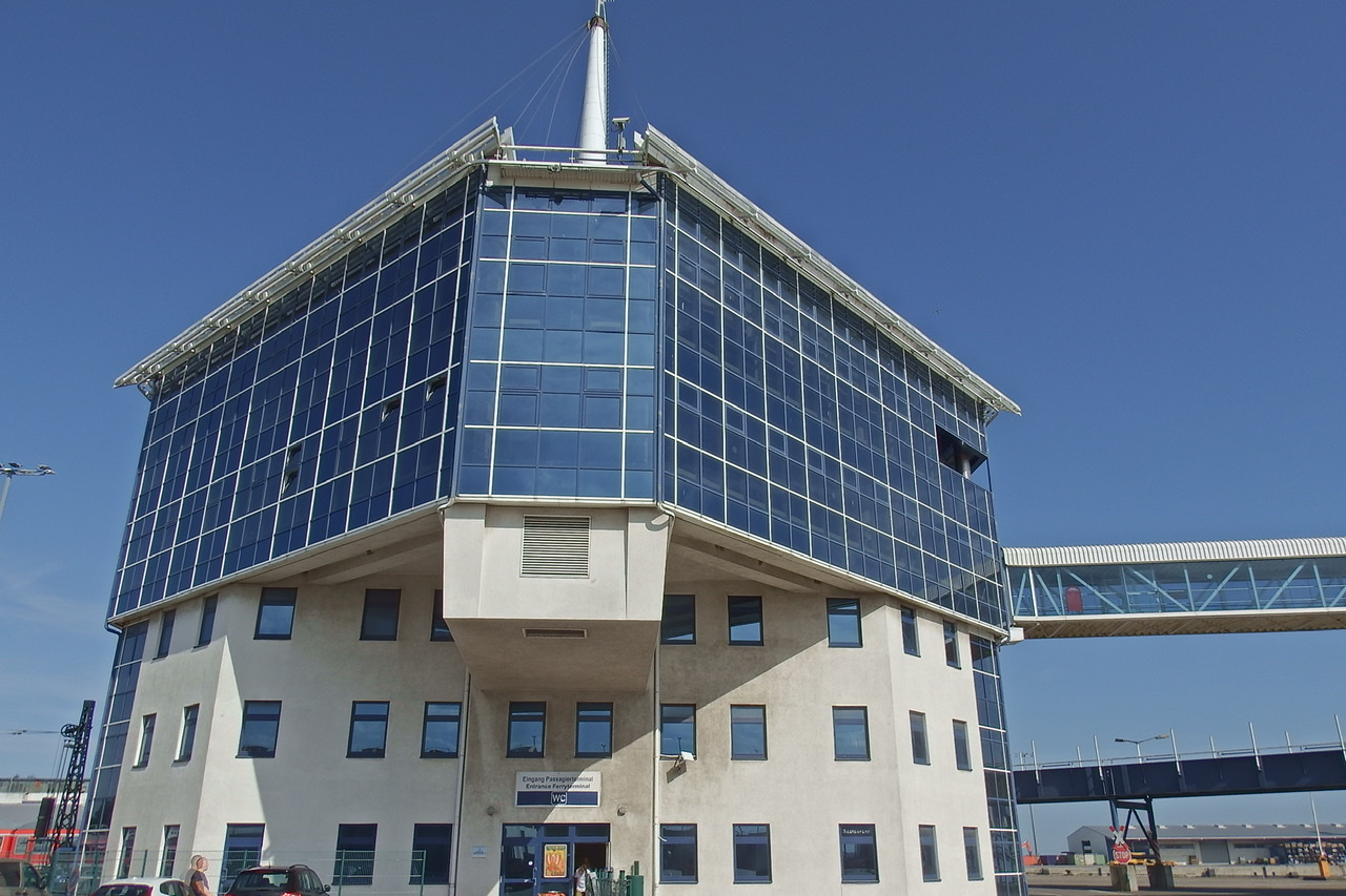 Ferry terminal Mukran / Sassnitz - here is the seamen’s club located